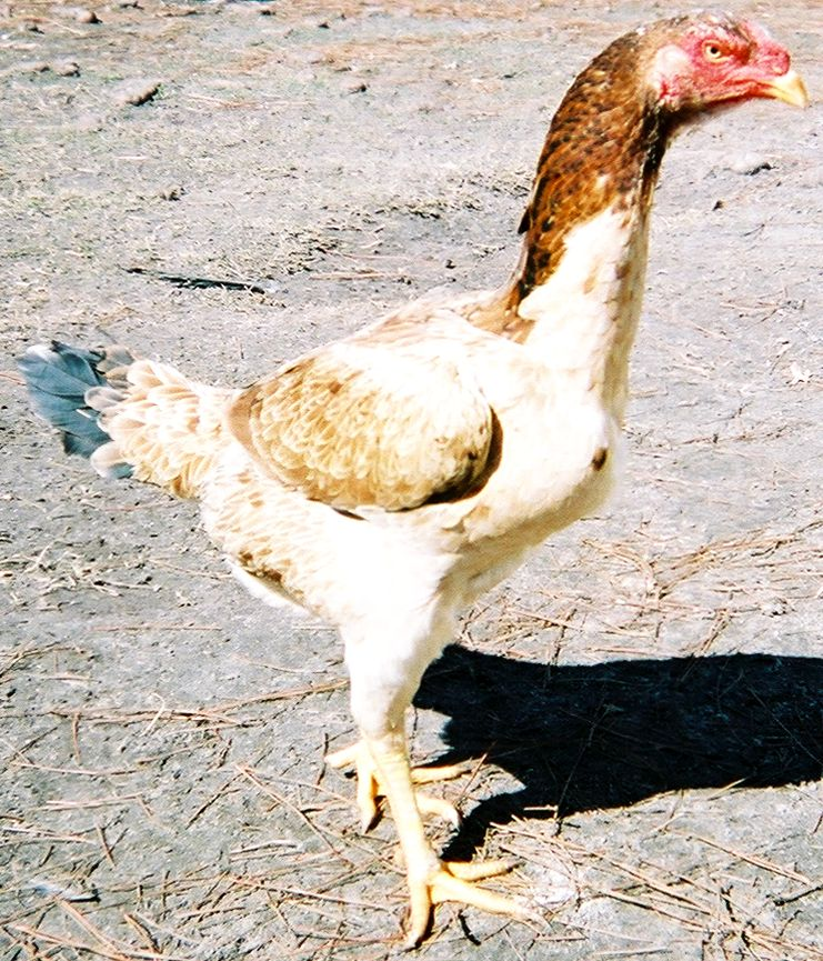 Malay Game Fowl Hen Wheaten Hen, Picture taken by Robert Buhat.